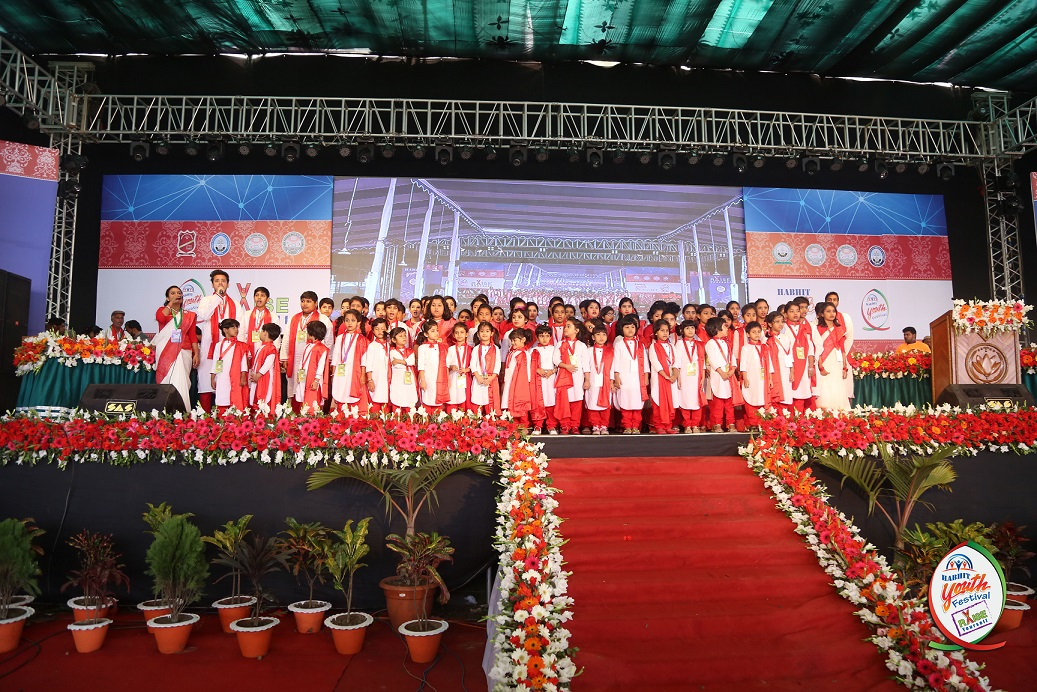 Youth Festival 2016 Photo